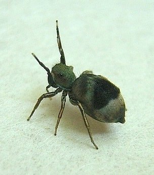 Siler cupreus from Japan